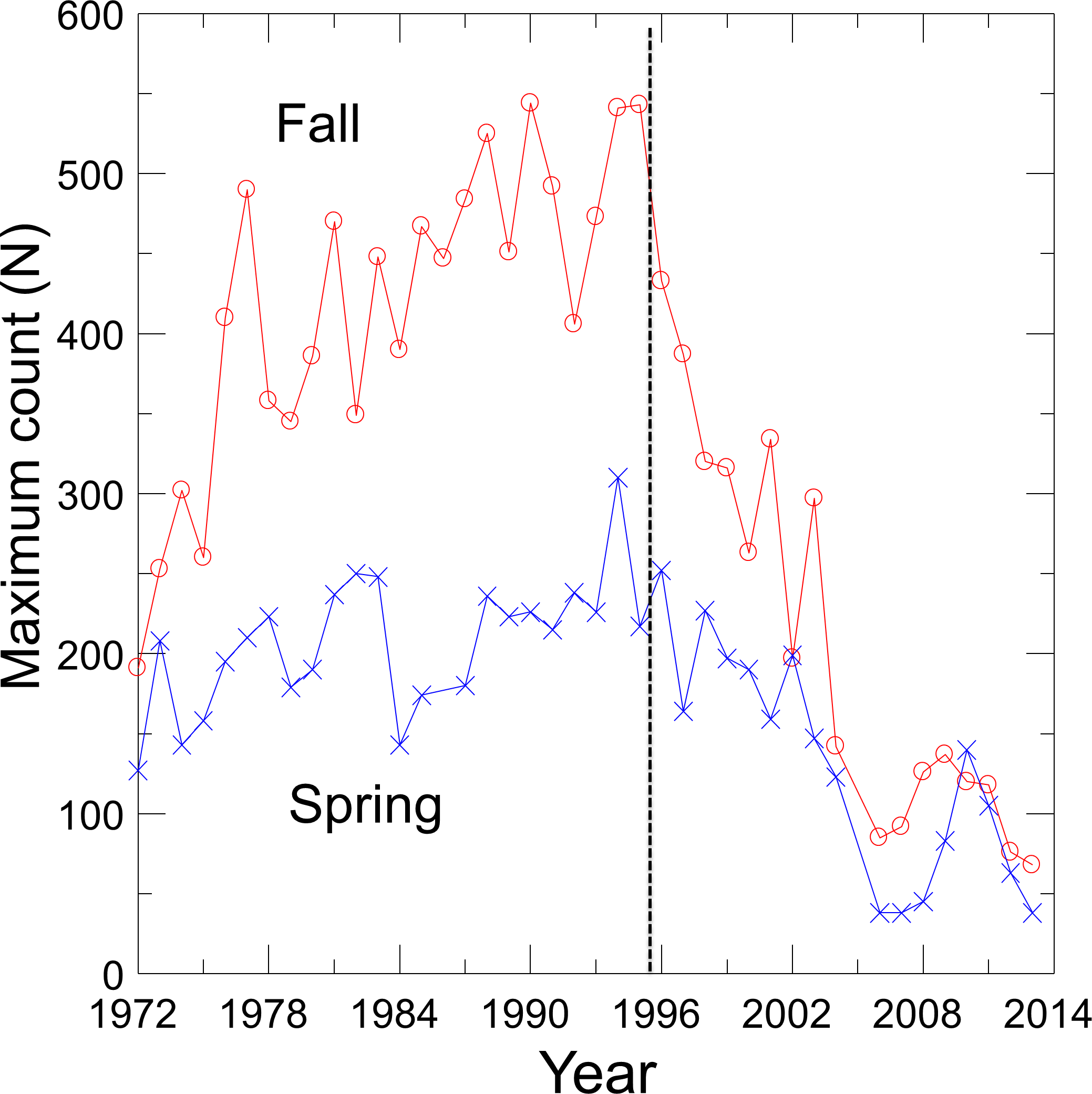 Graph of population of Cyprinodon diabolis for 1972-2013. Red line show maximum population in the fall, while blue line shows maximum population in the spring. Since 1995 (dashed line) the population have been declining.